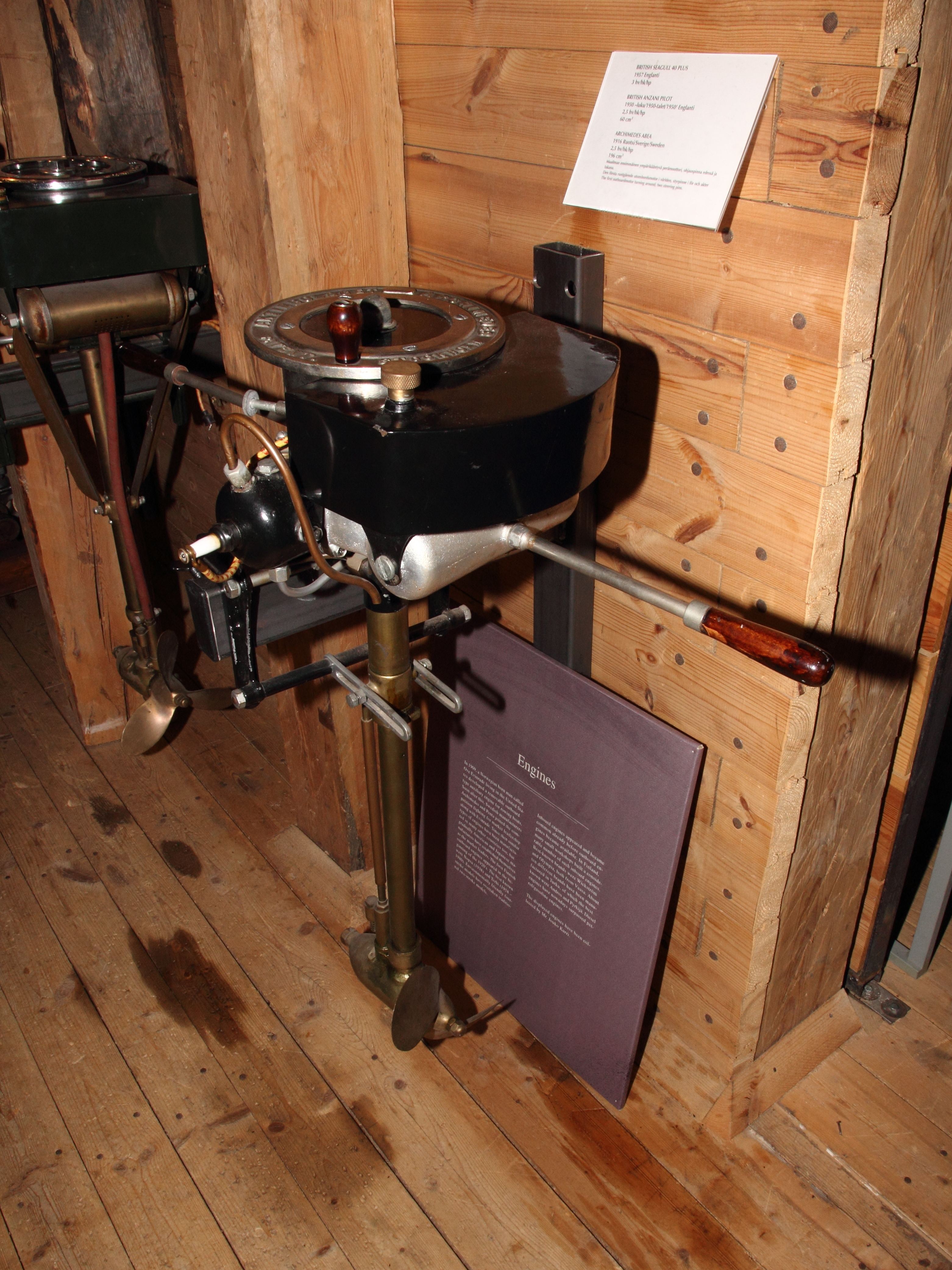 Swedish Archimedes Abea outboard motor from 1916 in Forum Marinum maritime museum. The first outboard motor capable of turning around, with two steering tillers.